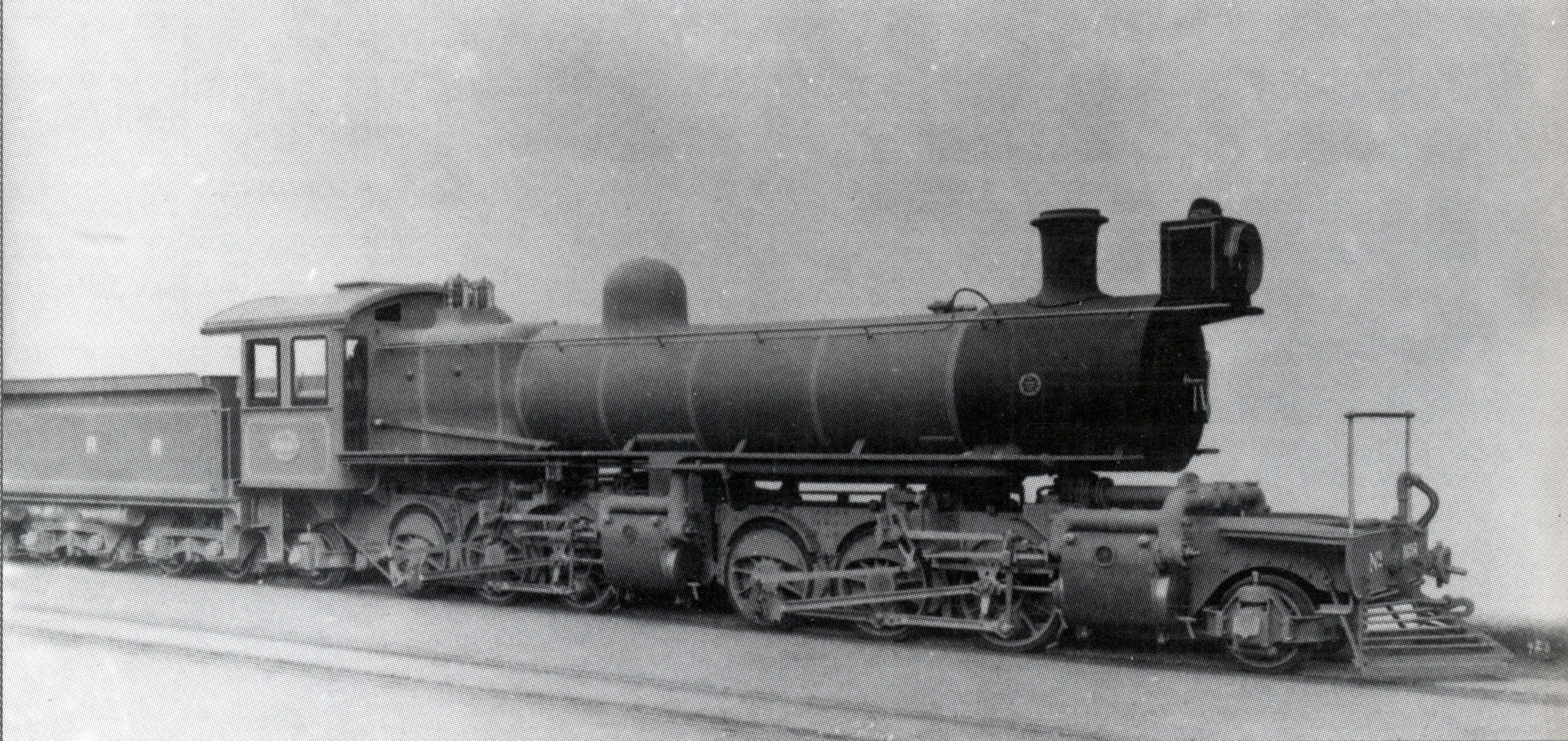 South African Railways Class ME no. 1618